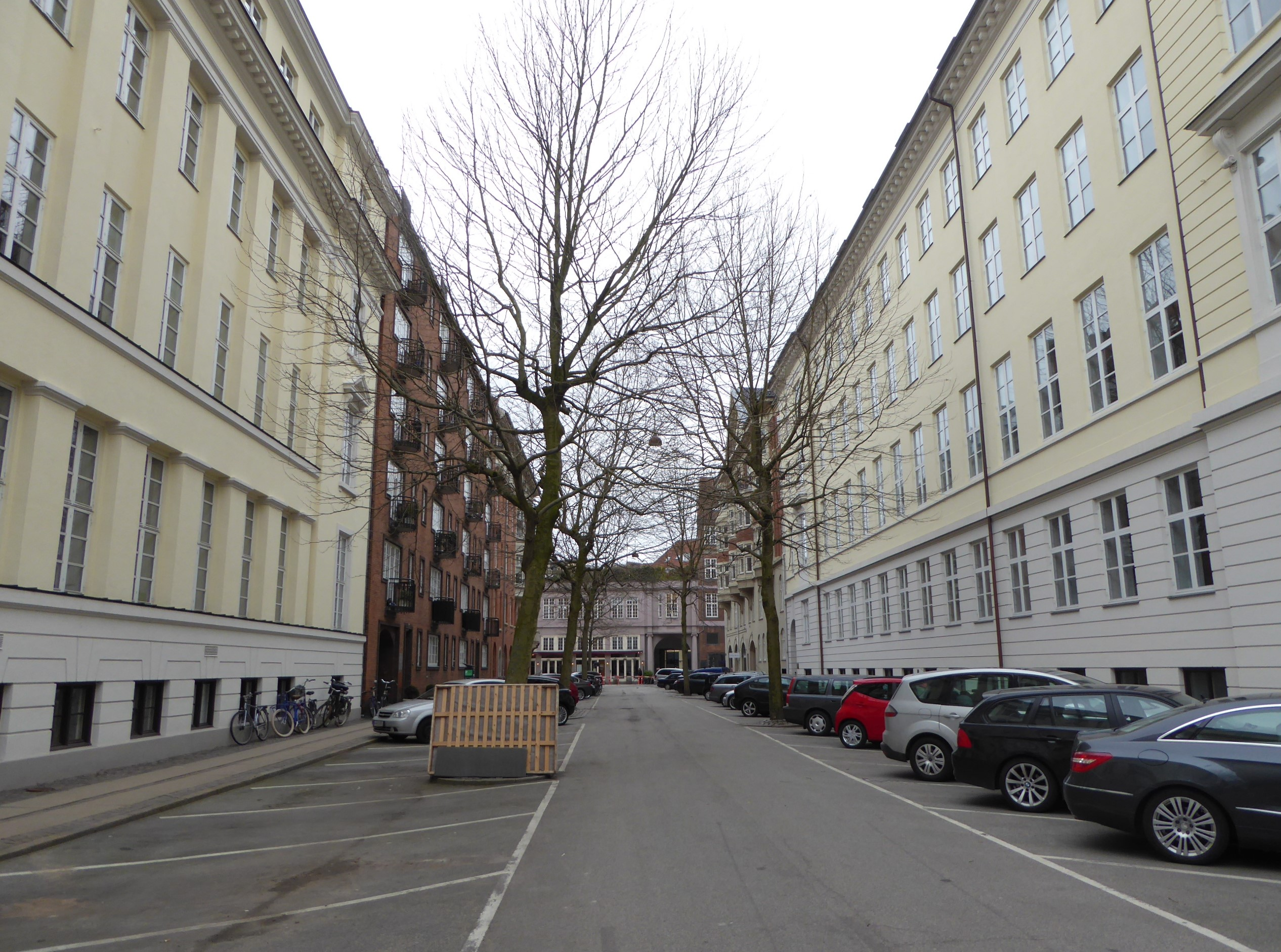 The street Bornholmsgade in Indre By in Copenhagen.